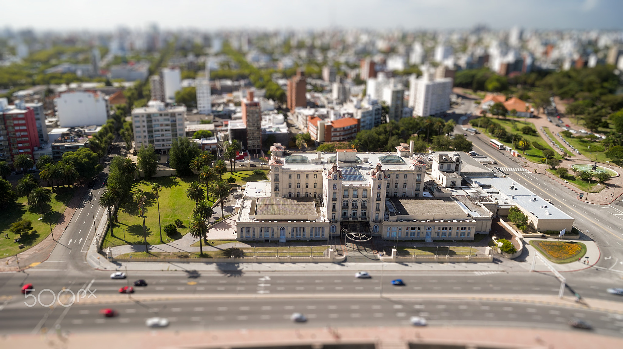 500px provided description: MERCOSUR , Montevideo Uruguay [#sky ,#city ,#sunset ,#street ,#travel ,#blue ,#sun ,#light ,#clouds ,#urban ,#architecture ,#tilt-shift ,#summer ,#building ,#beautiful ,#green ,#hotel ,#street photography ,#urban exploration]